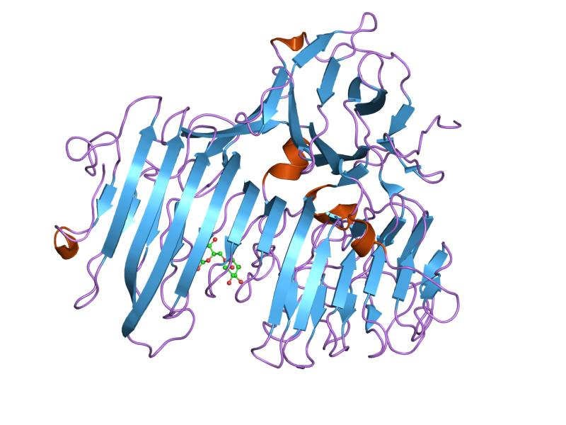 Cartoon representation of the molecular structure of protein registered with 1ogo code.